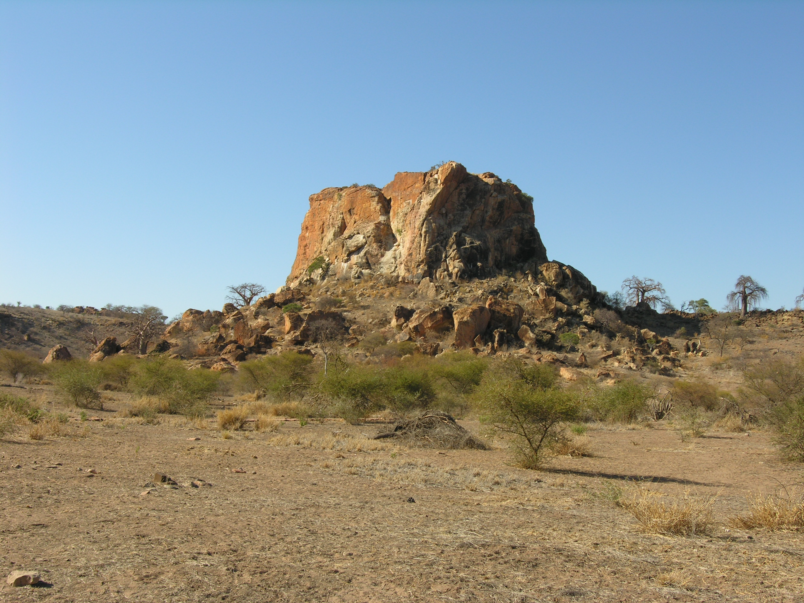 Mapungubwe Cultural Landscape (South Africa)